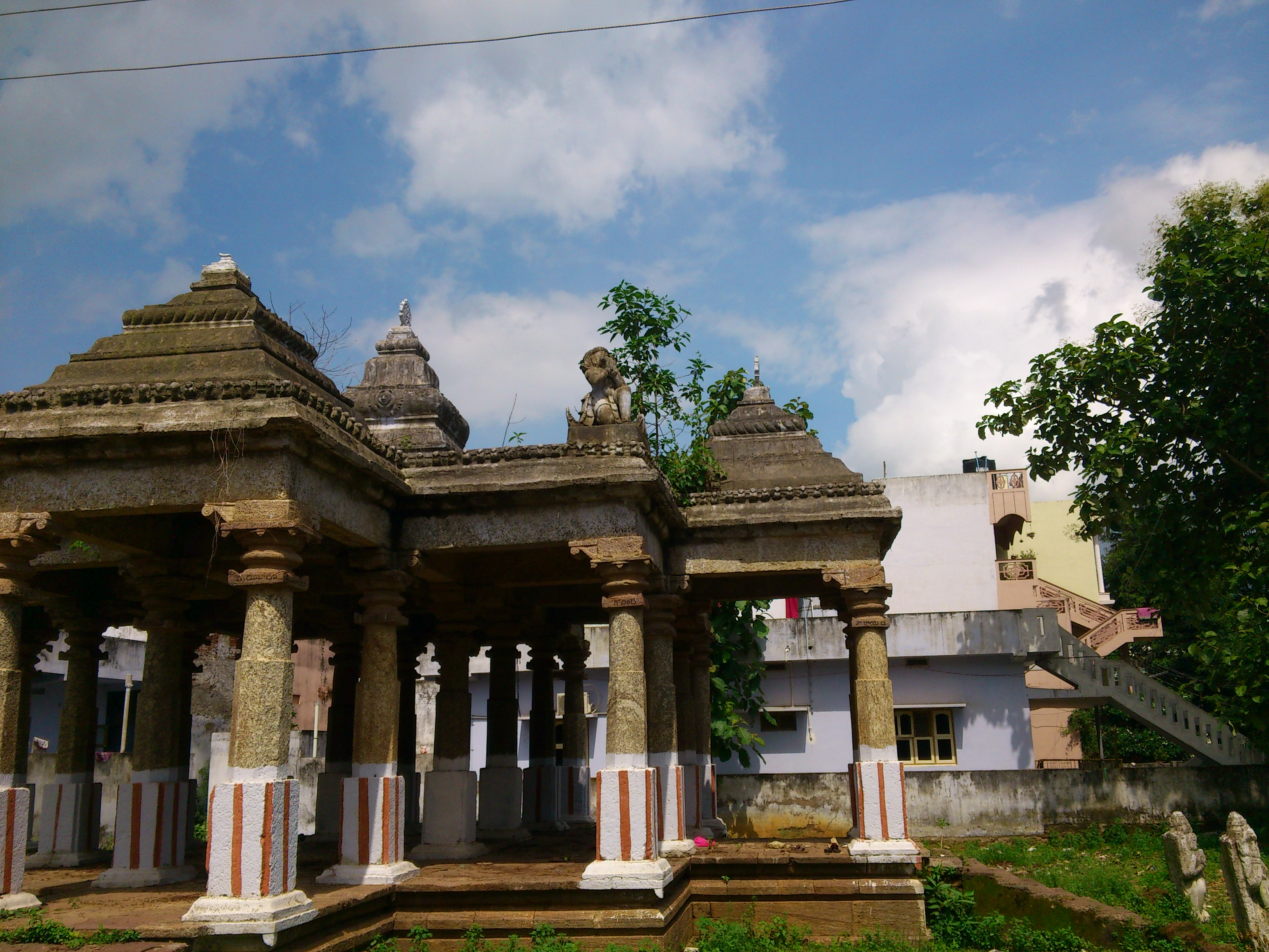 This construction is located in Bobilli,Andhra Pradesh.